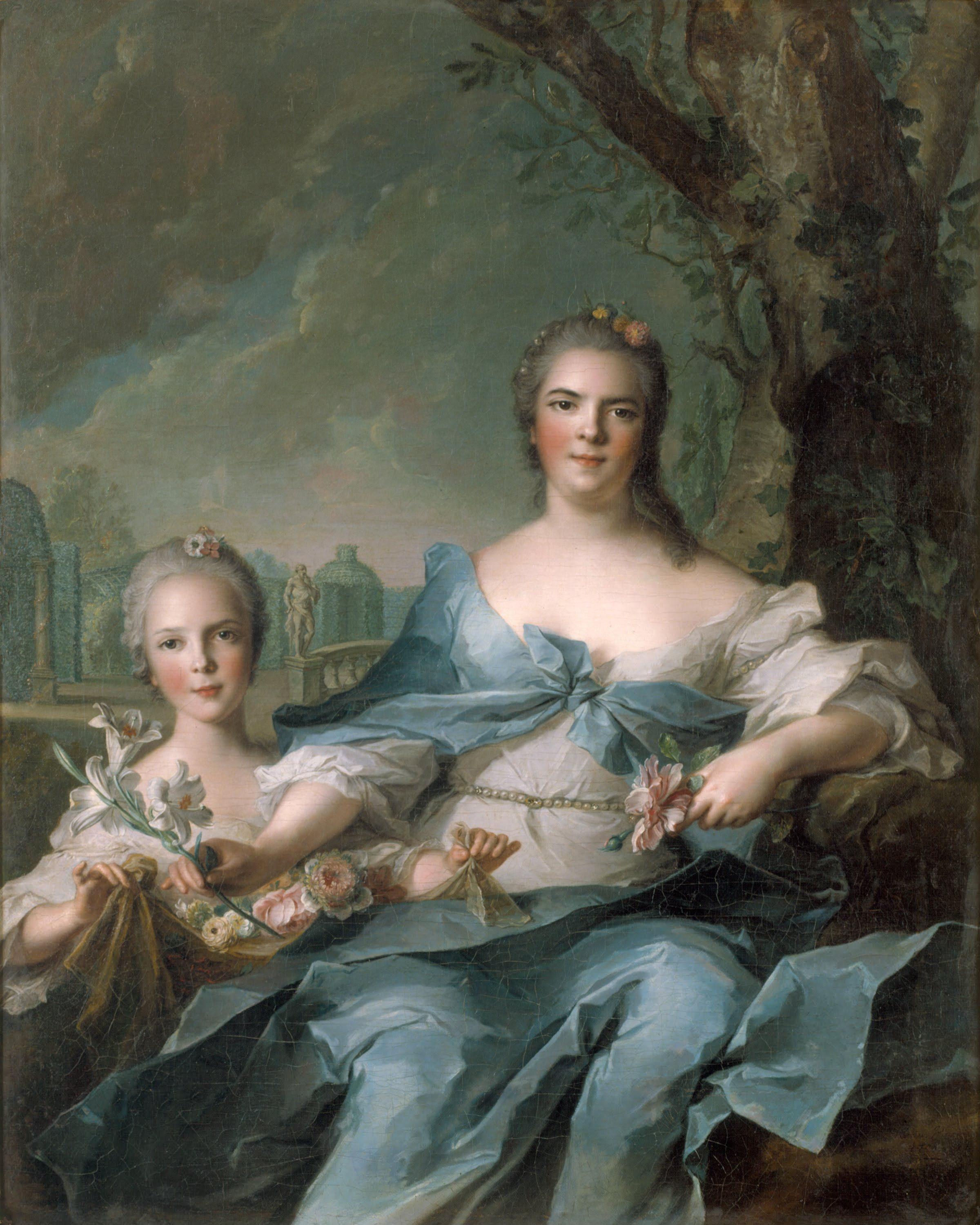 Nattier succeeded as a fashionable portrait painter by naturally posing his sitters within a formal baroque composition. These skills helped the artist to obtain several commissions for portraits of Louis XV and his family. Nattier painted this portrait of the eldest daughter of Louis XV and her daughter while the duchess visited her father at Fontainebleau so he could meet young Isabelle. The duchess, née Louise Elizabeth, married the Infante Felipe, a Spanish Bourbon. Known until then as Madame Infante, in 1748 she persuaded her father to make her husband the duke of Parma.